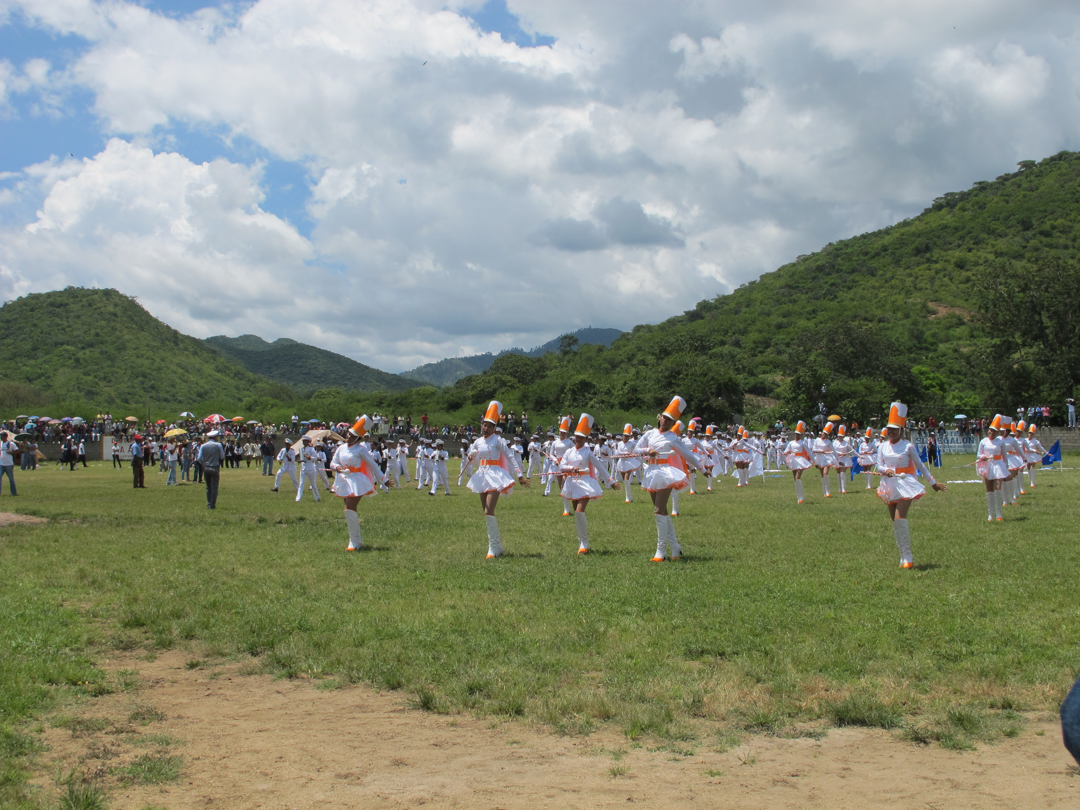 Ocotal palillonas